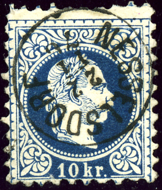 Austrian KK 10 kreuzer stamp, fine beard, cancelled NESSELSDORF in 1876 (?), Moravia - Fingerhut 19 mm